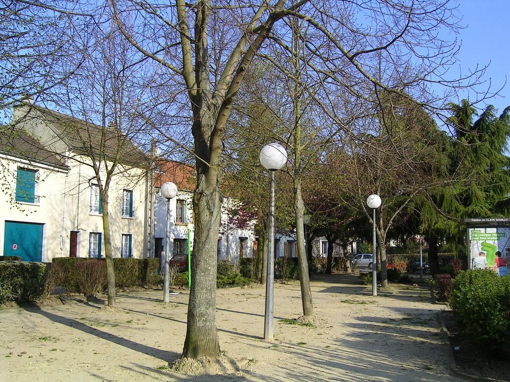 Place du village Photo personnelle (own work) de Marianna